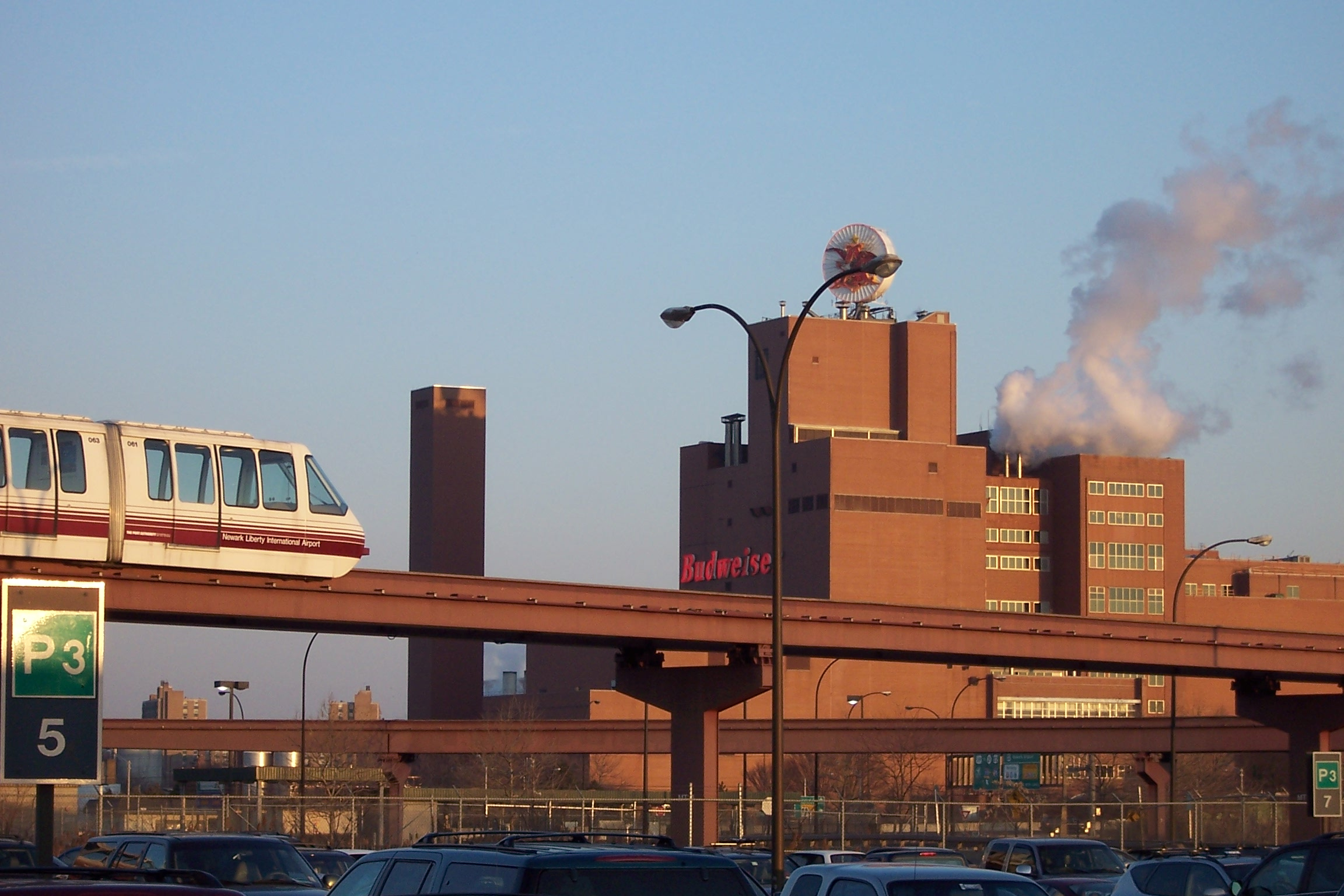 Photograph taken by J. L. Schilling, 16 Mar 2005.